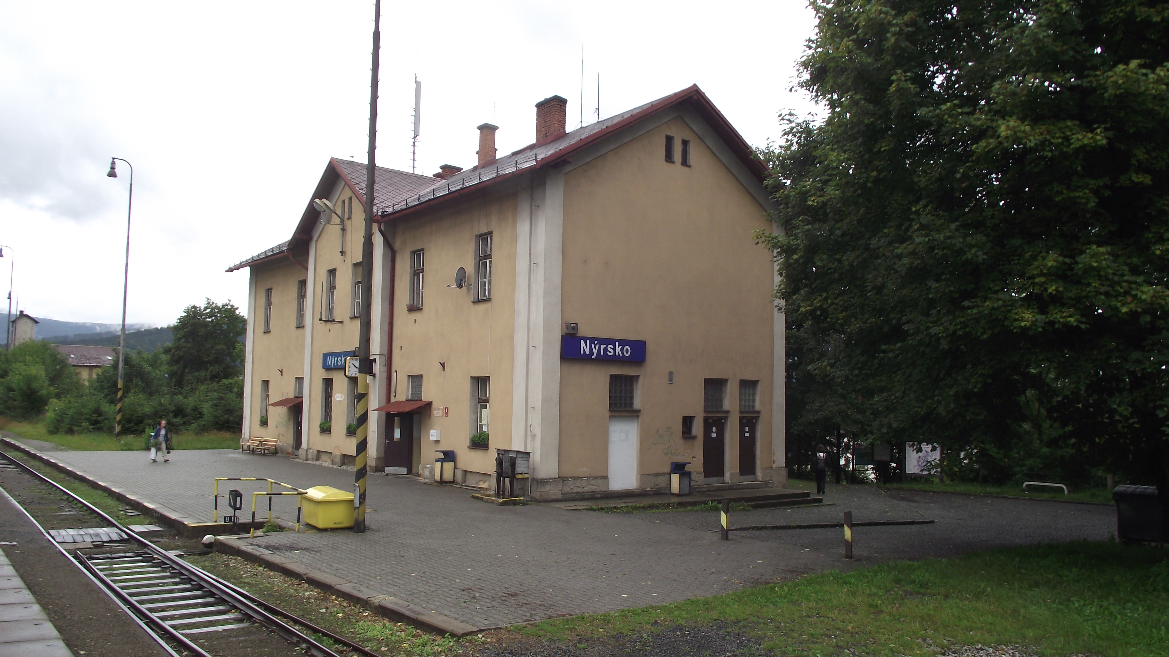 Nýrsko train station